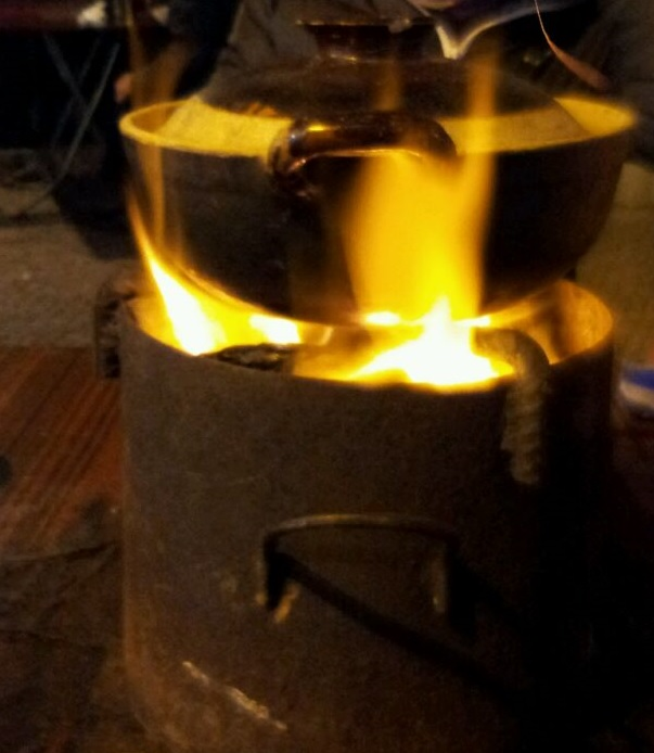 This photo has been taken in the country: China